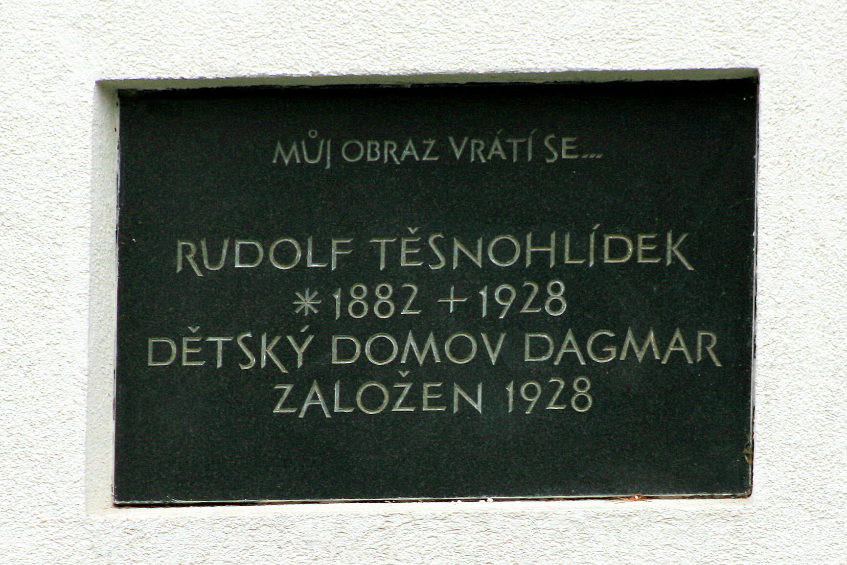 Memorial plaque to a writer Rudolf Těsnohlídek, founder of the Children's house Dagmar. Brno, Czech Republic.